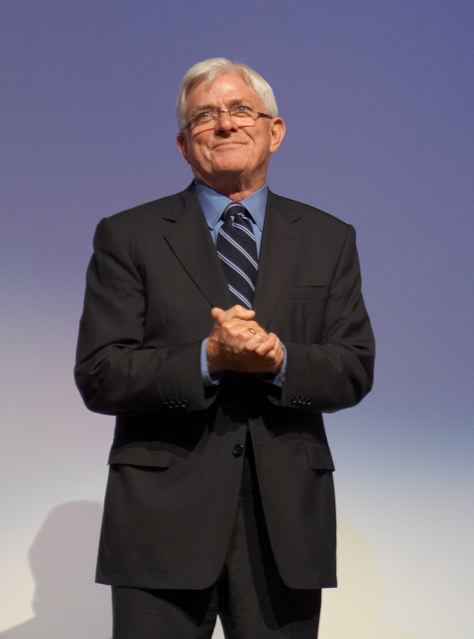 Phil Donahue introduces the North American premiere of the documentary Body of War at the Toronto International Film Festival.